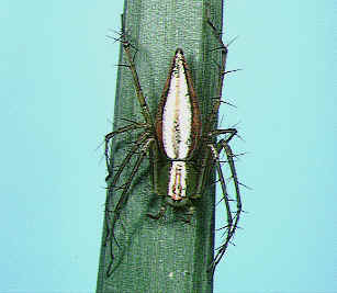 female Oxyopes macilentus from Okinawa.